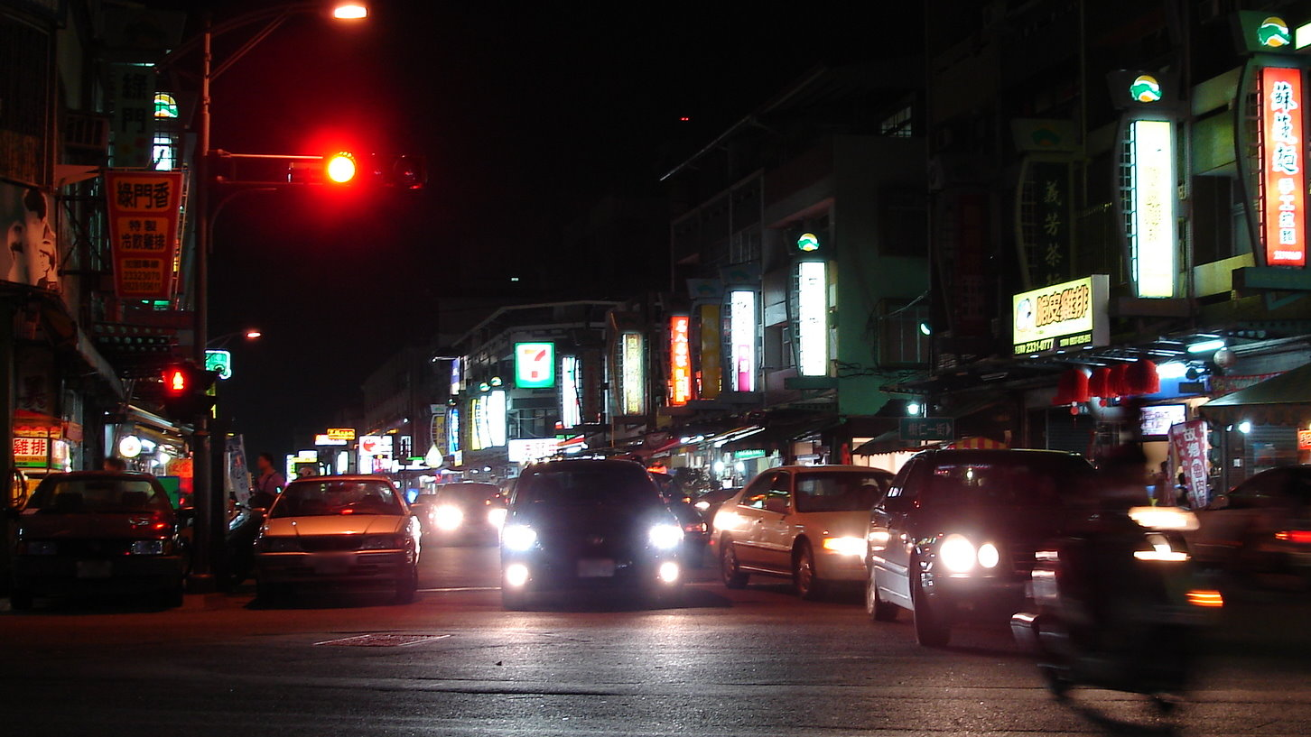 Shu Ren Rd. ,Wufeng,Taichung.night